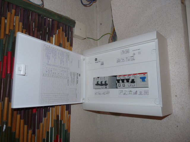 Modular cabinet with circuit breakers after fixing.